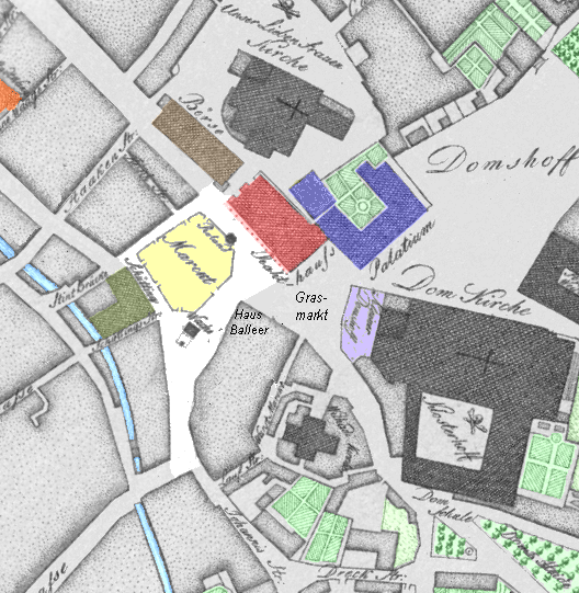 Marketplace of Bremen in 1796; except of the of the Börse (stock exchange), the built up areas are almost the same as in 1638